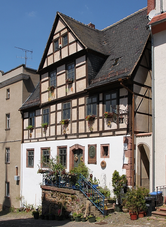 Castle, An der Kirche No. 1 (cultural heritage monument), birthplace of the historican Johann David Köhler (1684-1755).